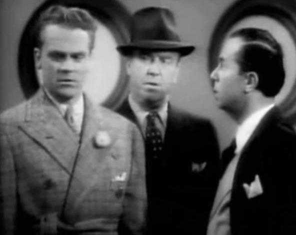 James Cagney, William Frawley and Marek Windheim in Something to Sing About (1937)